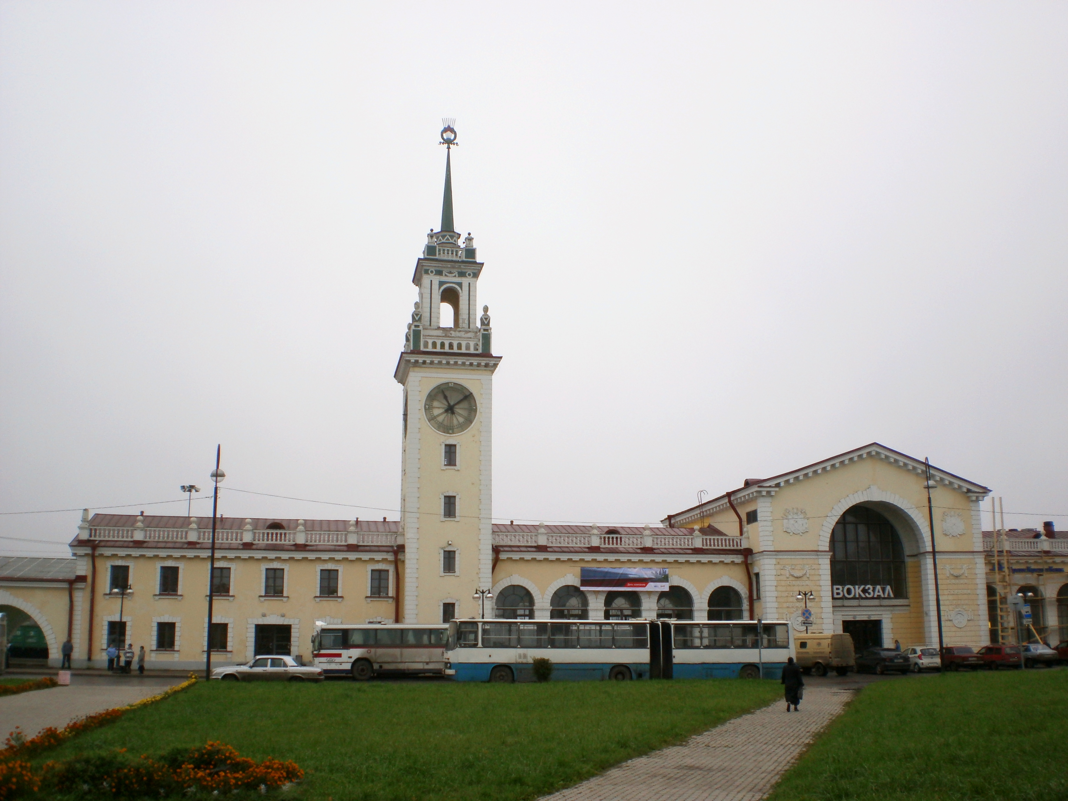 Volkhov train station